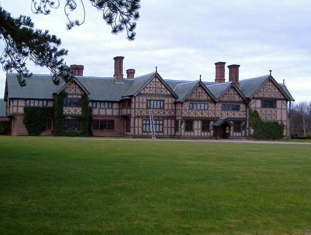 Photograph